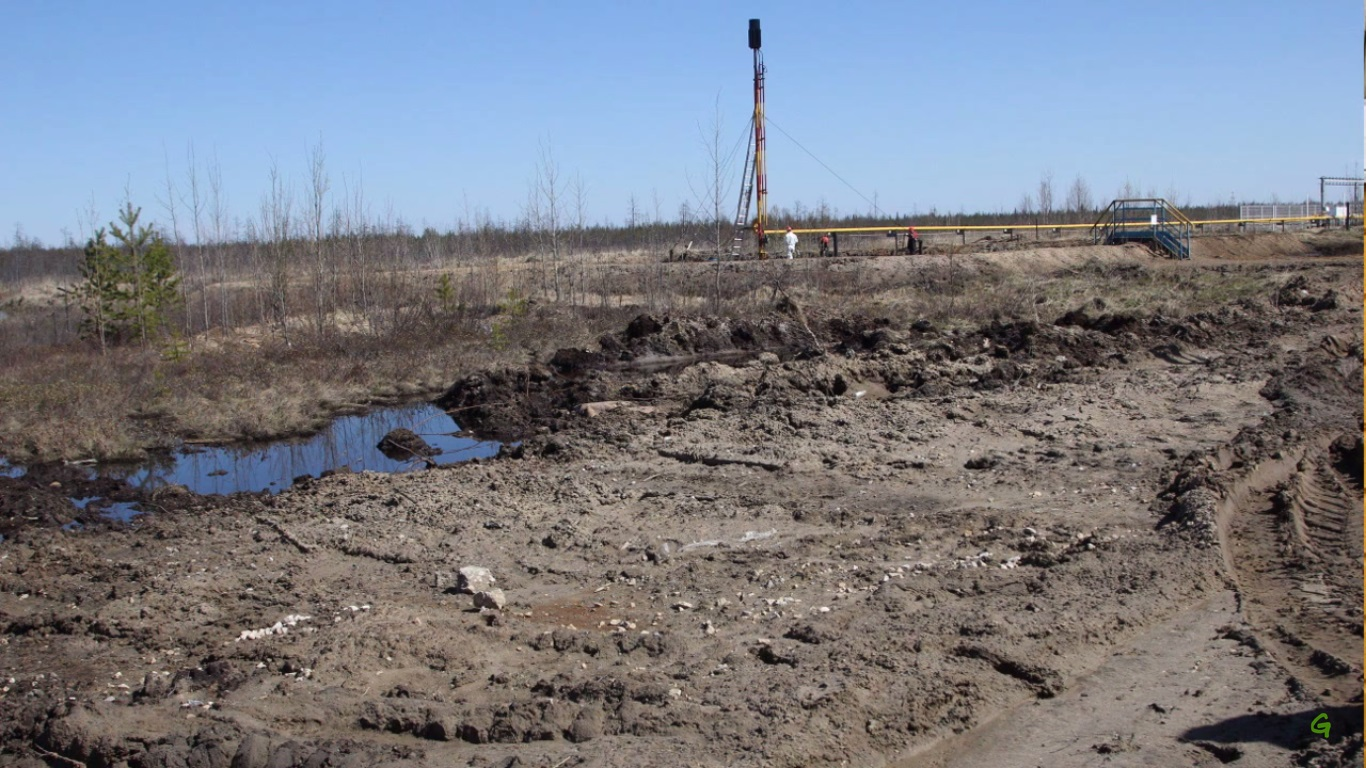 Oil pollution caused by aging infrastructure, traditional Izvata territories, Komi Republic.